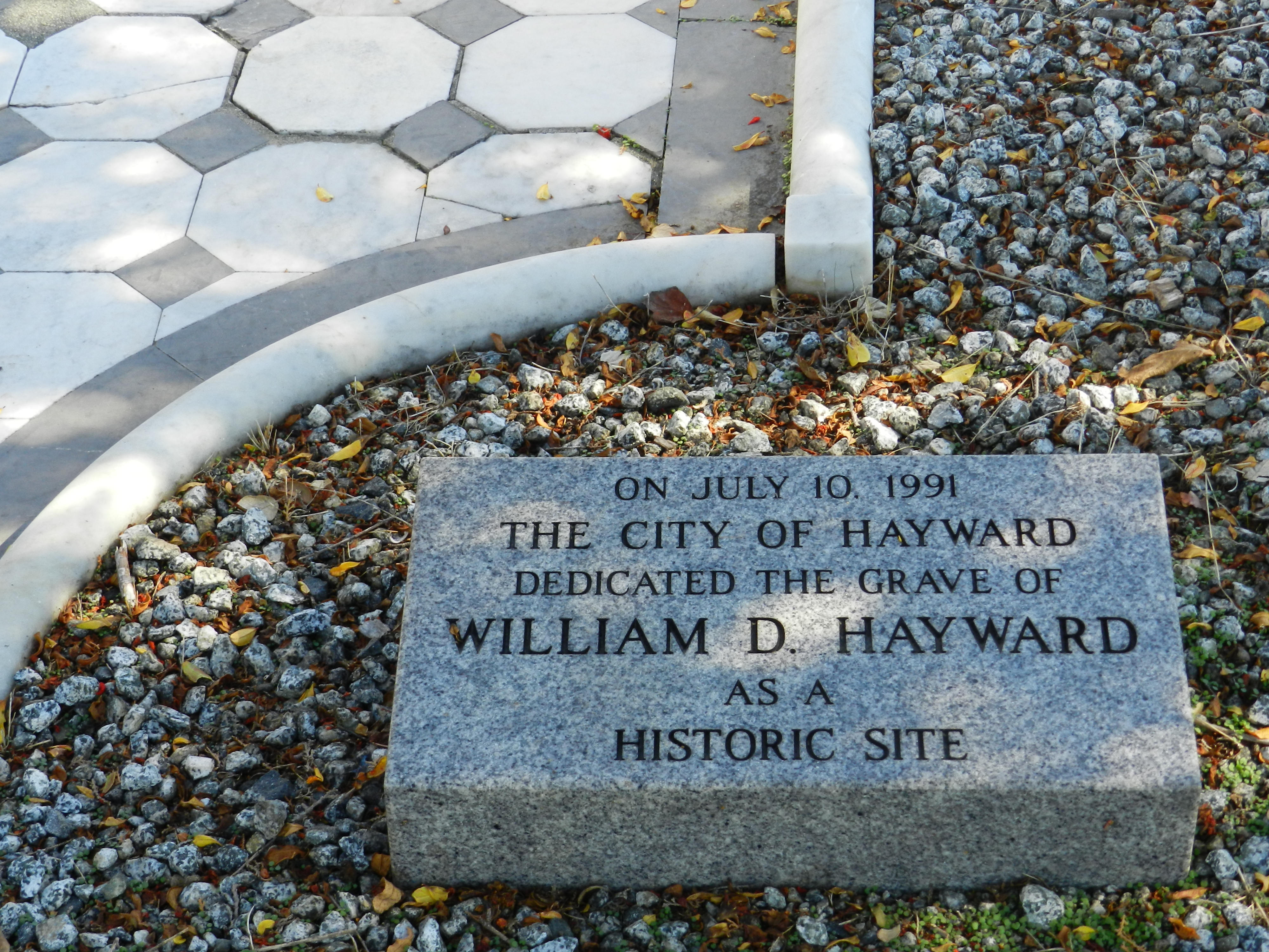 memorial plaque at william dutton hayward gravesite, lone tree cemetery fairview, near hayward california